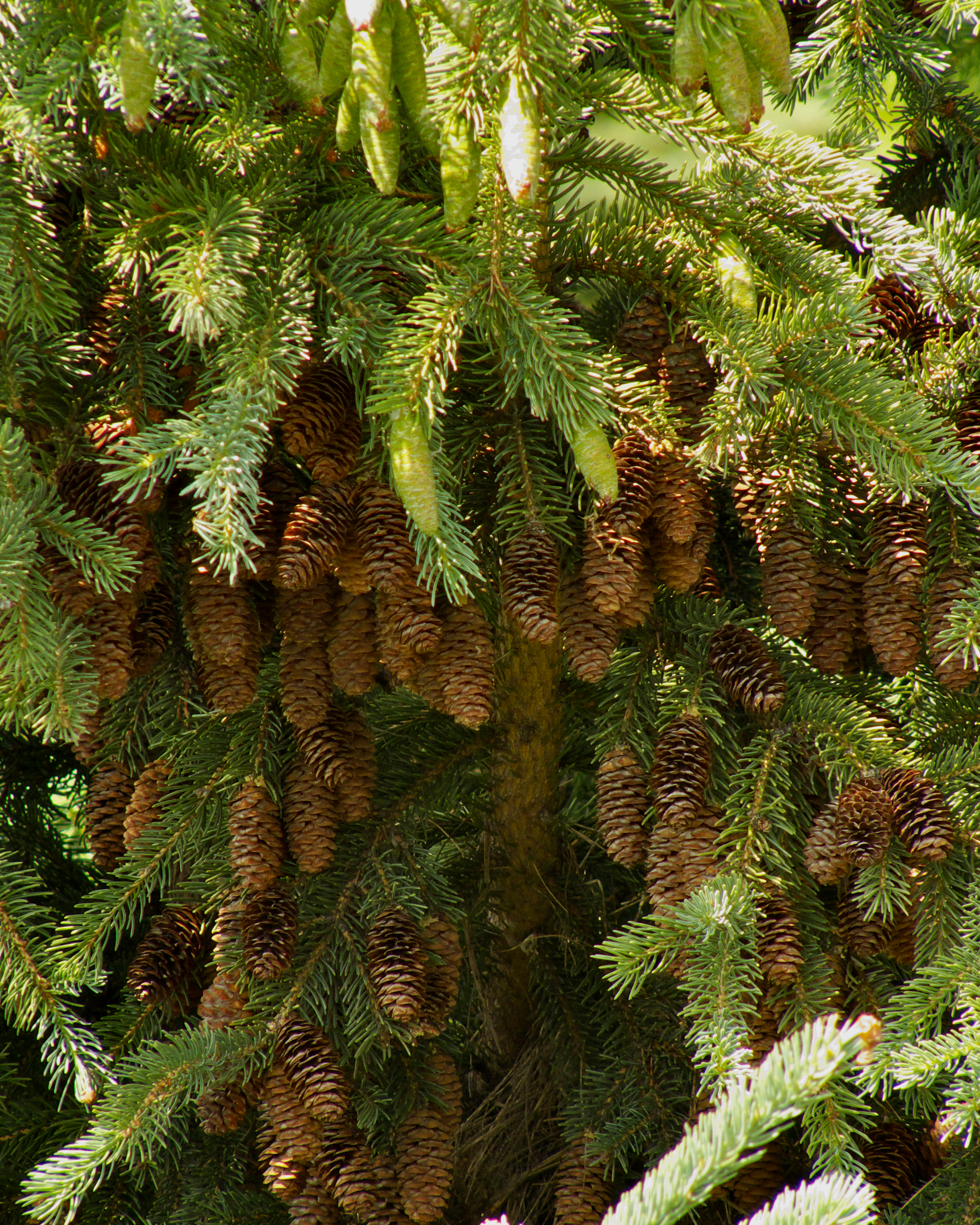 White Spruce Picea glauca foliage and cones. Near Lacombe, Alberta, Canada